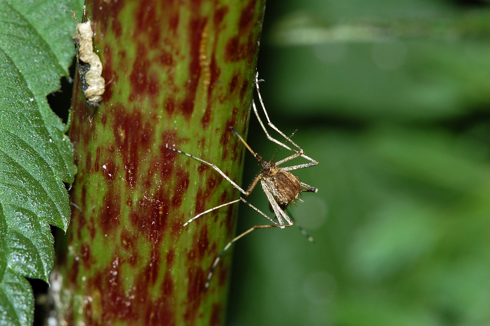 Unknown Culicidae, Röblingen near Halle/Saale, Germany